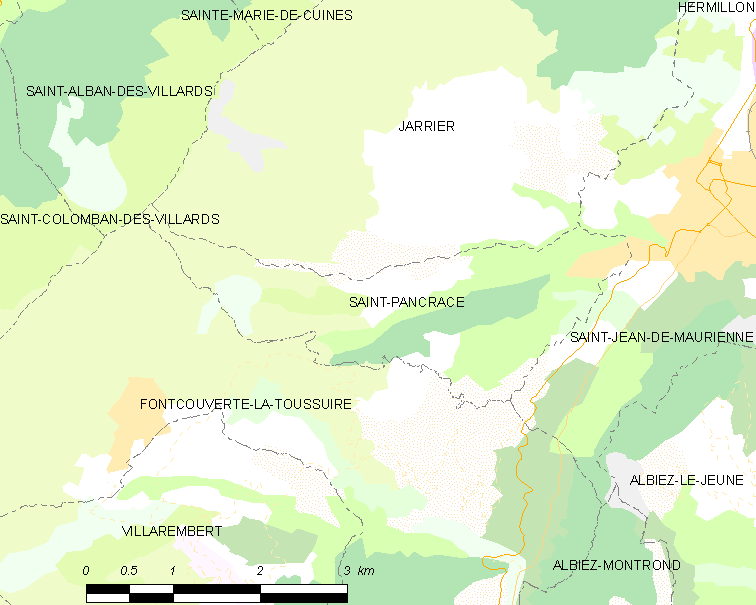 Map of French municipality Saint-Pancrace